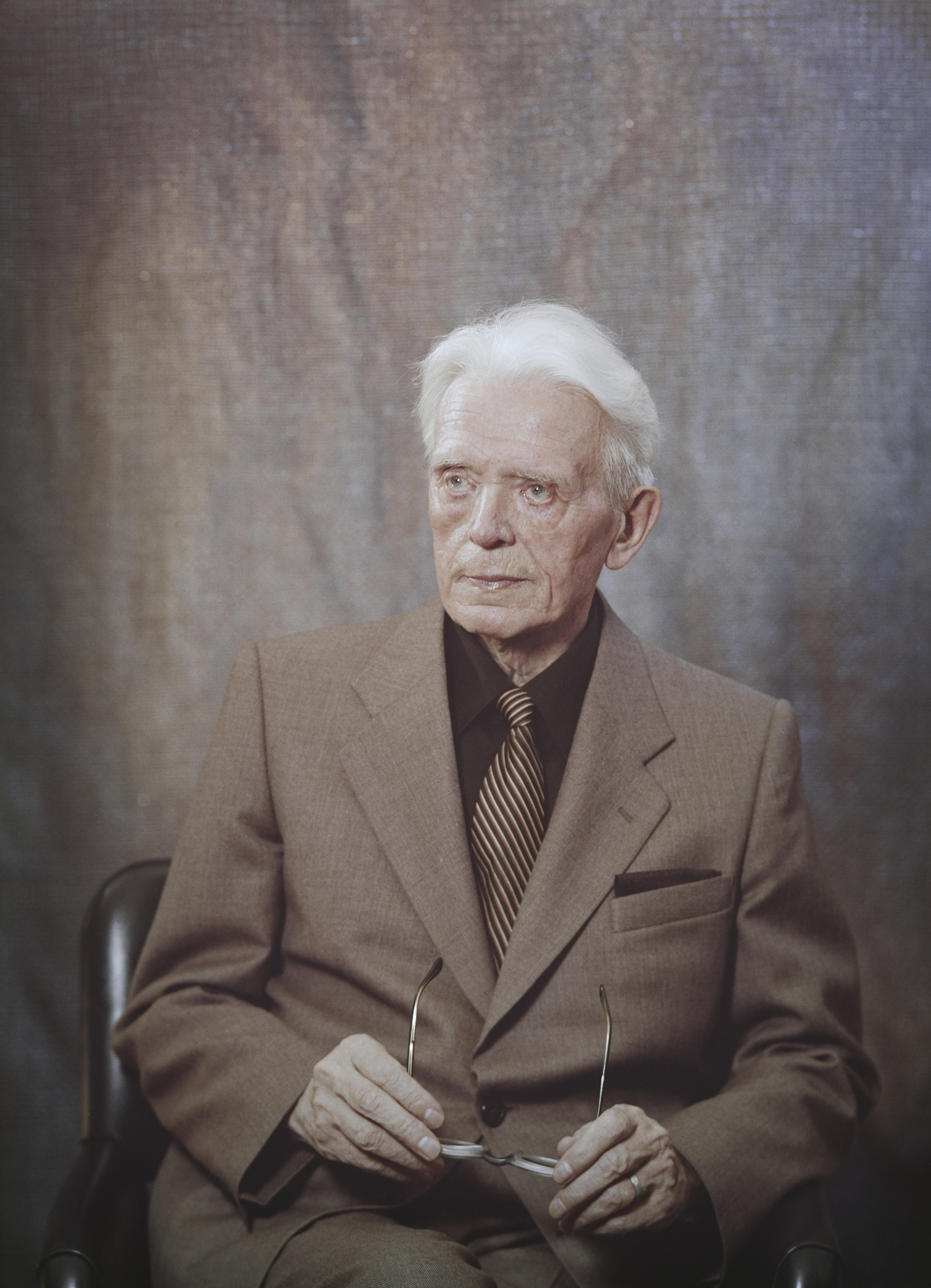 Photograph of the Finnish forester Valter Keltikangas (1905–1990).